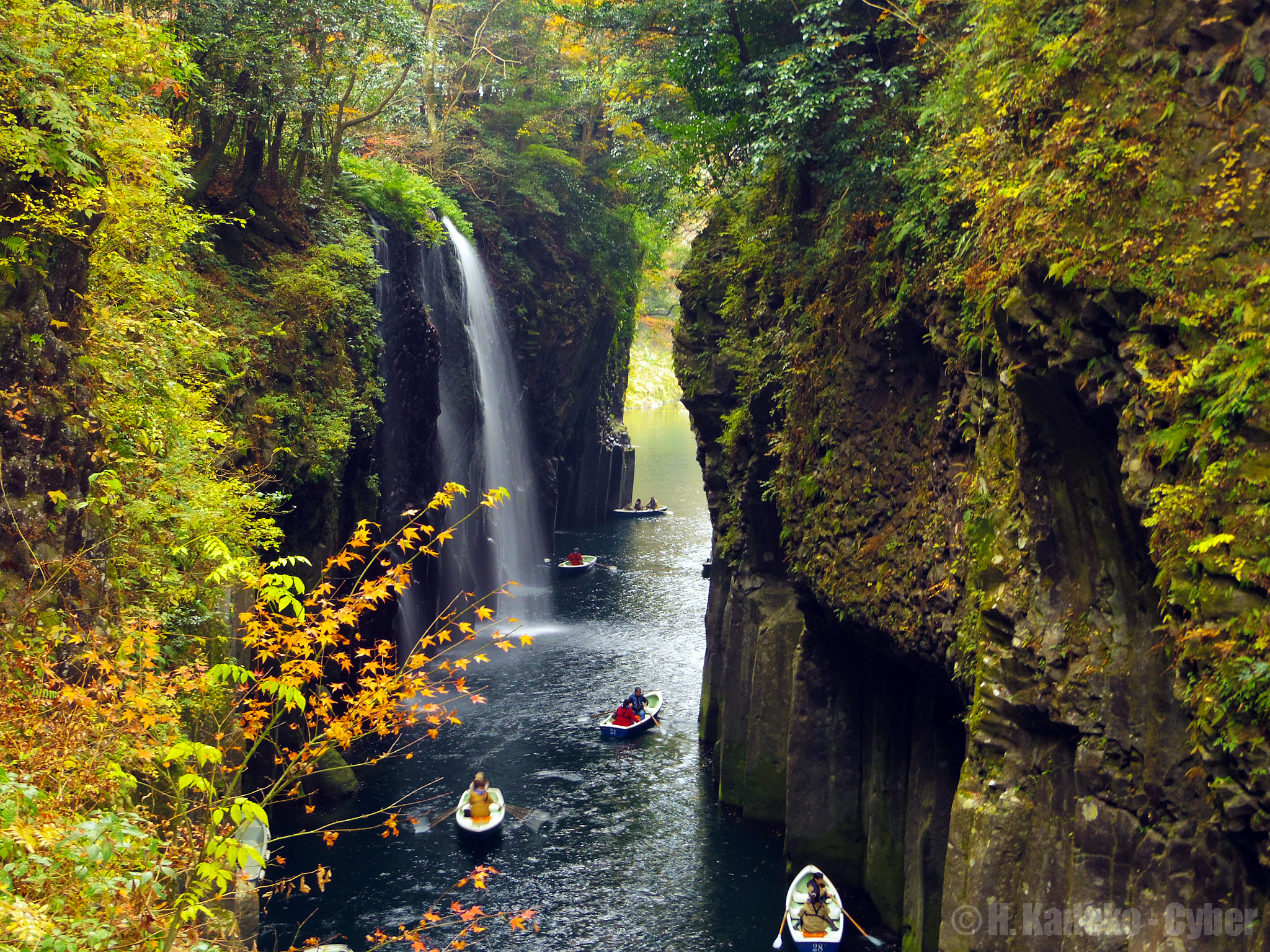 秋色の高千穂峡 (Autumn Colored Takachiho Gorge) 24 Nov, 2012